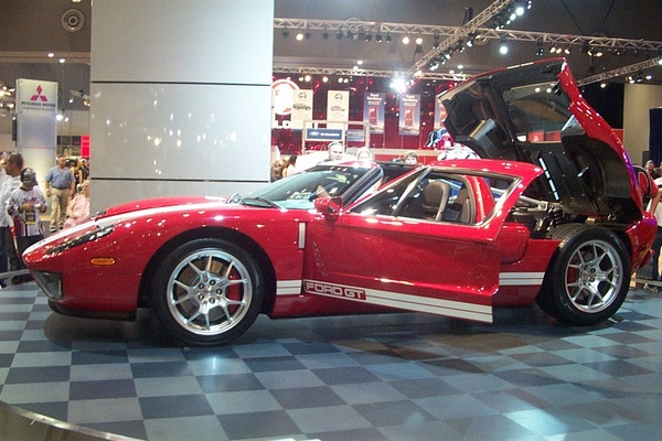 A Ford GT, photo taken at the 2005 Perth Motor Show